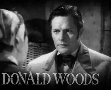 Donald Woods in The White Angel - trailer (cropped screenshot)